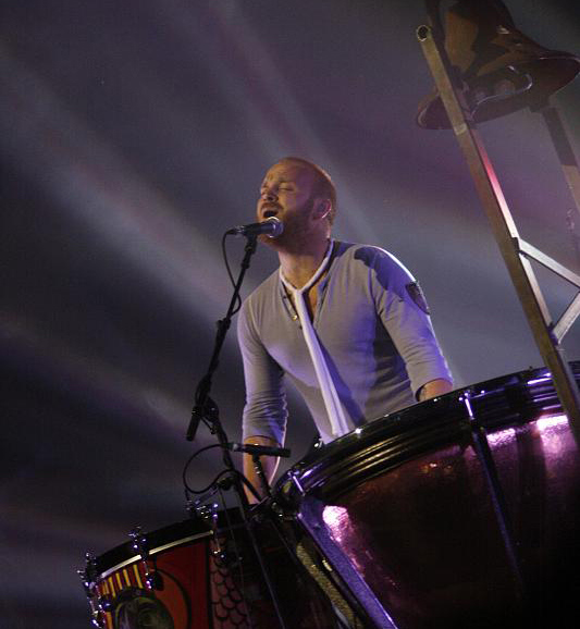 Will Champion performing "Viva la Vida" during the band's 2008 tour Viva la Vida